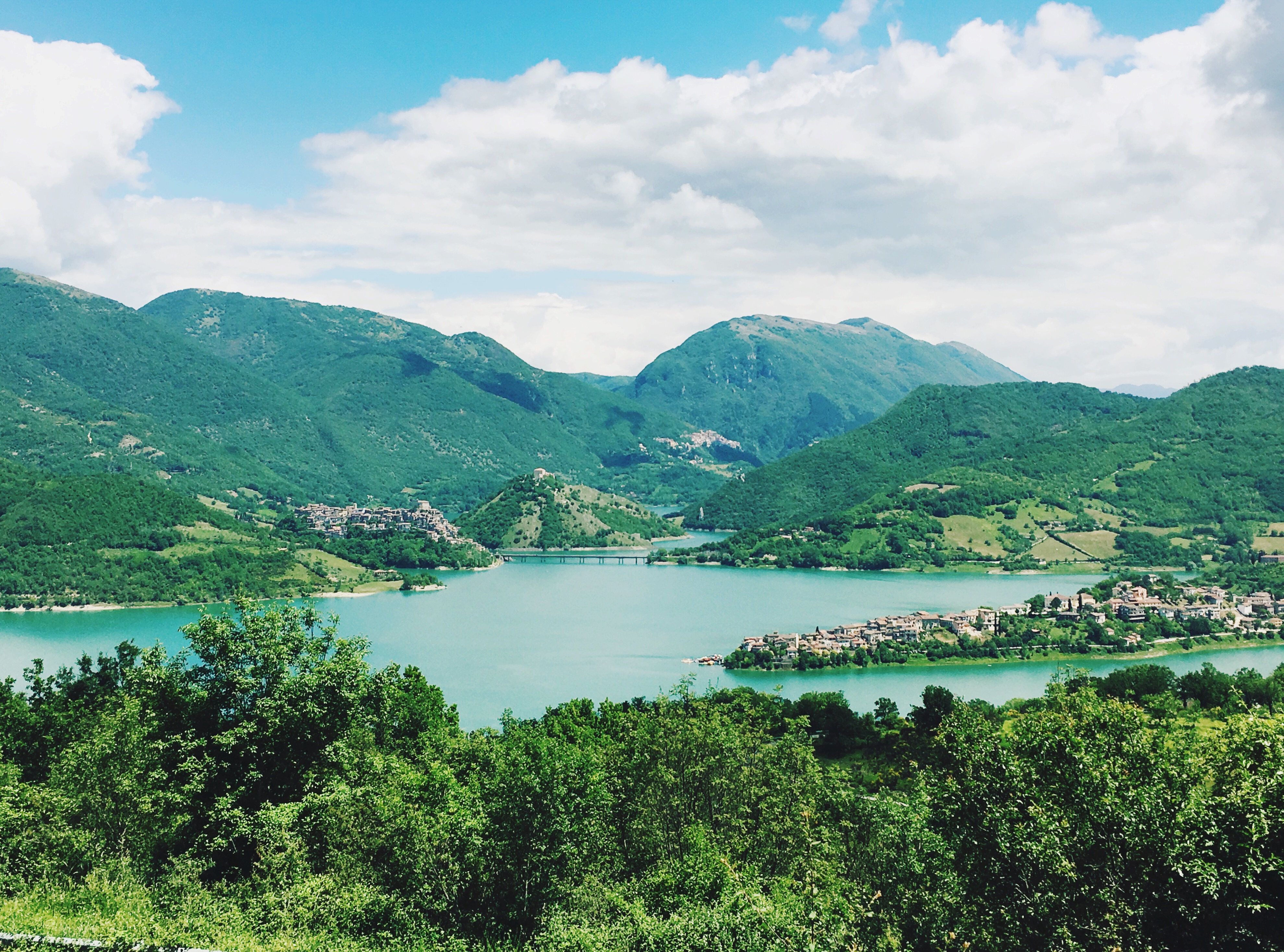 Panorama of Lake of Turano, with views of Colle di Tora, Castel di Tora and Antuni